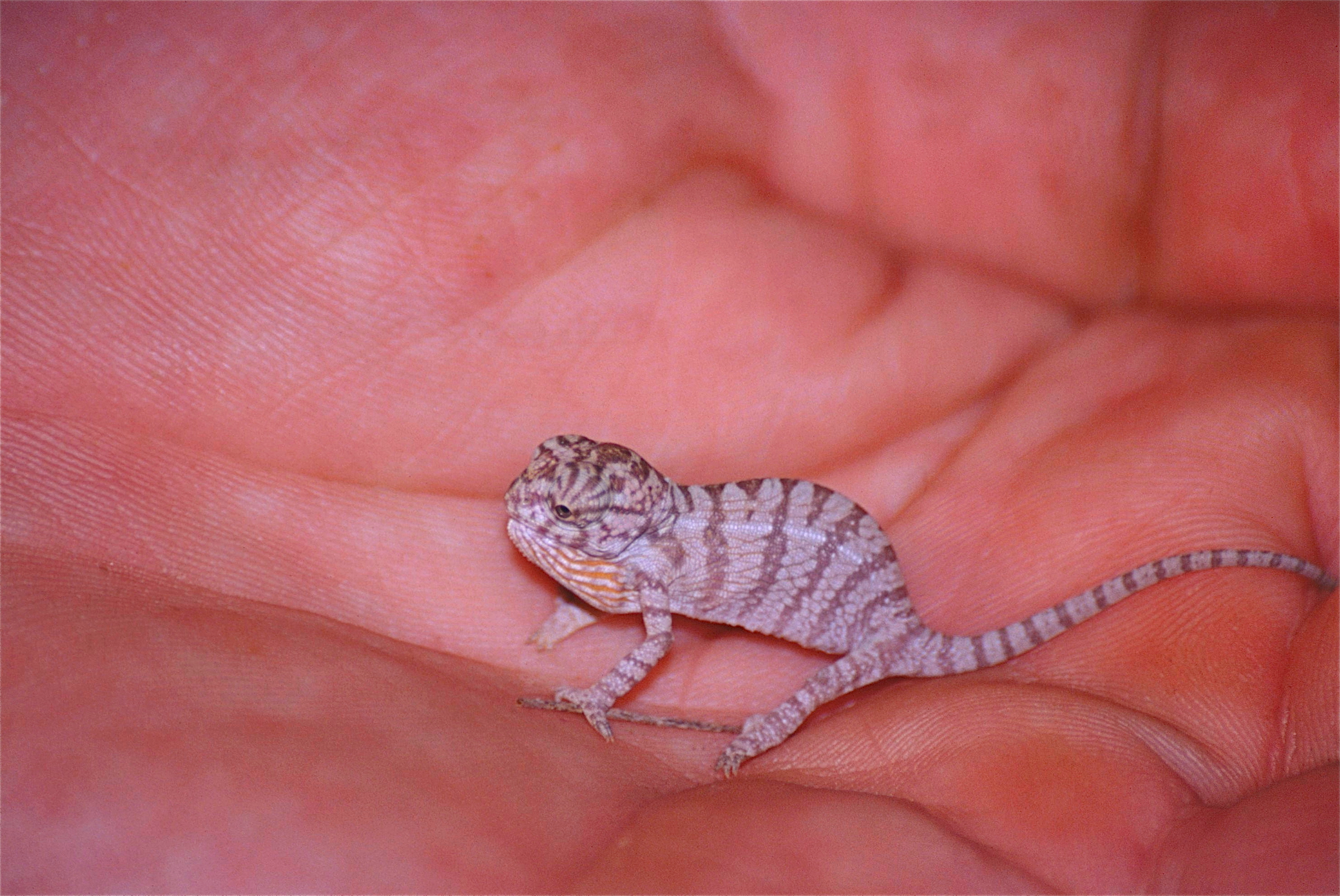 Kirindy Forest, MADAGASCAR Scanned Slide from 1998